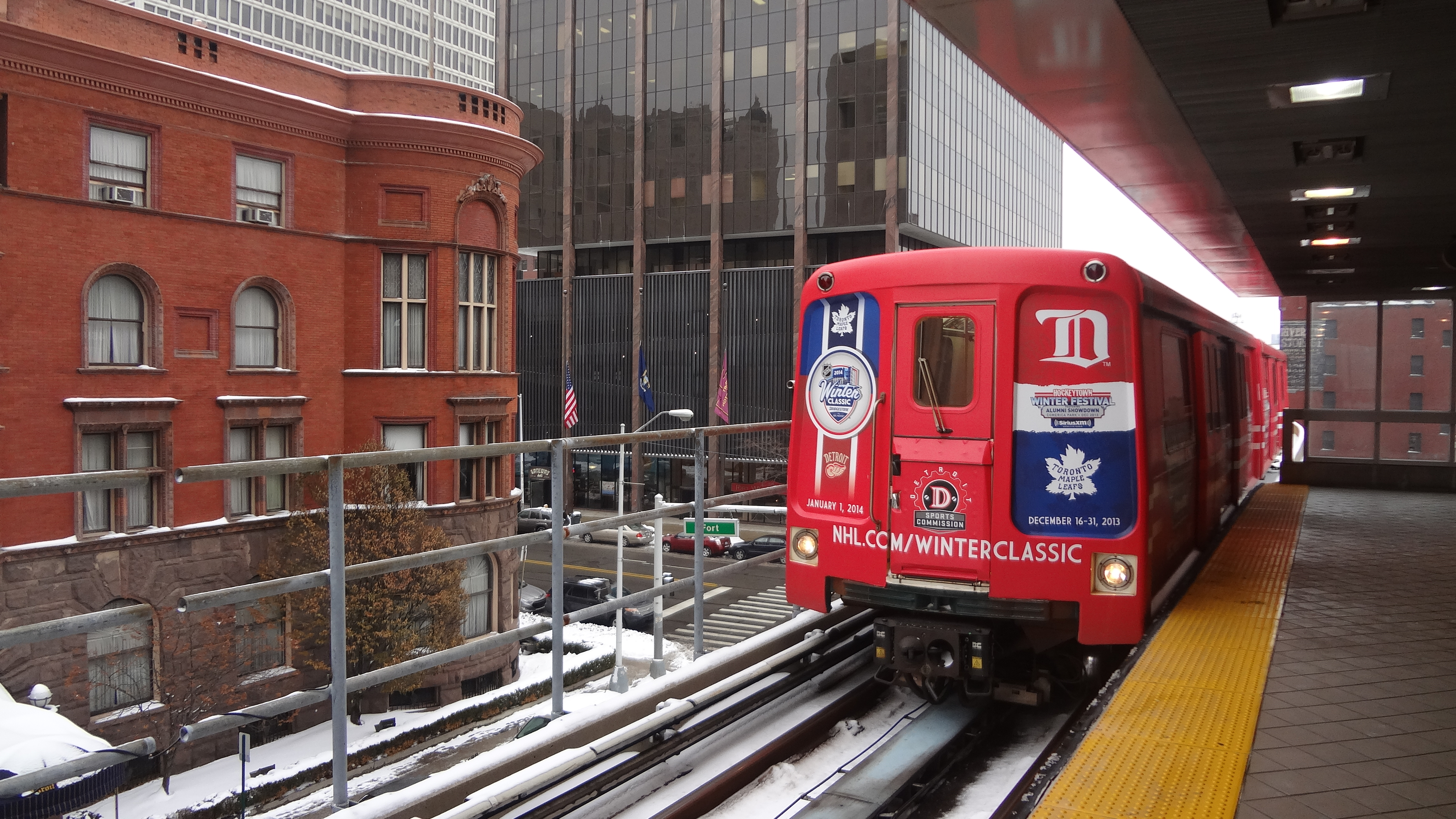 Michigan Avenue station of the Detroit People Mover